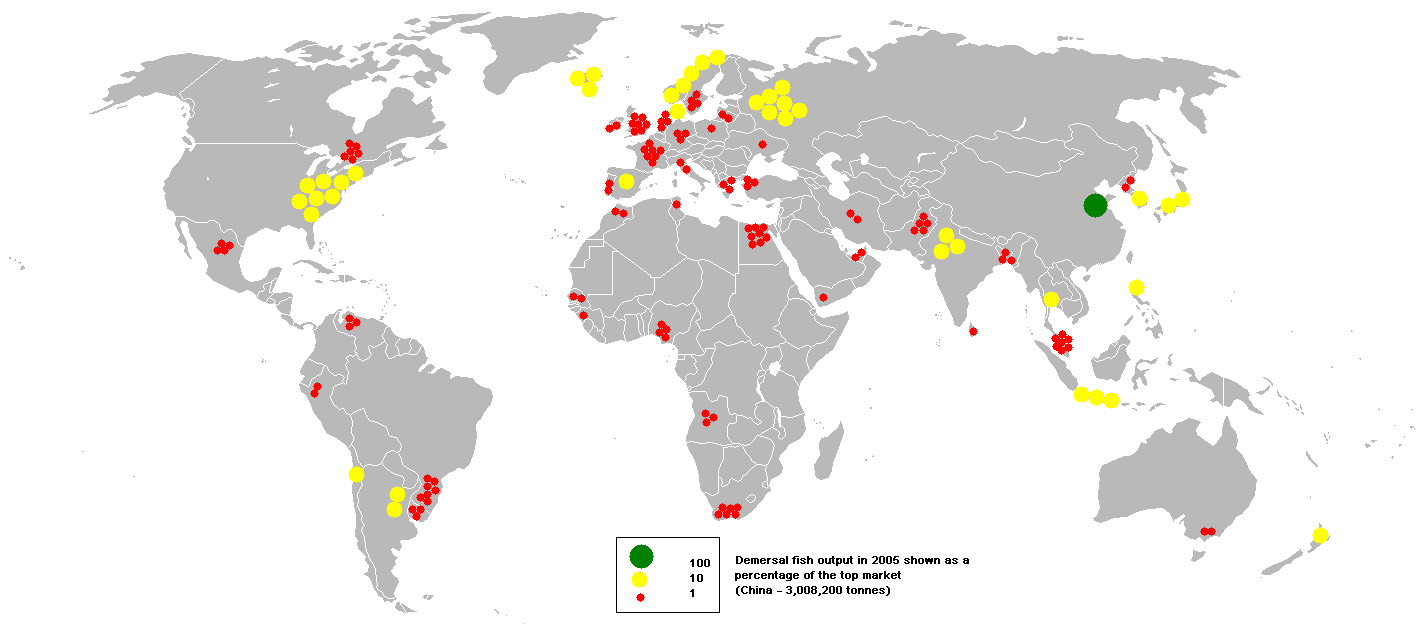 This bubble map shows the global distribution of demersal fish output in 2005 as a percentage of the top market (China - 3,008,200 tonnes). This map is consistent with incomplete set of data too as long as the top producer is known. It resolves the accessibility issues faced by colour-coded maps that may not be properly rendered in old computer screens. Data was extracted on 26th June 2007 from Based on :Image:BlankMap-World.png